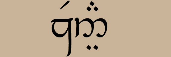 the Quenya word "Quenya" in J.R.R. Tolkien's tengwar script; wide format for the German Wiktionary